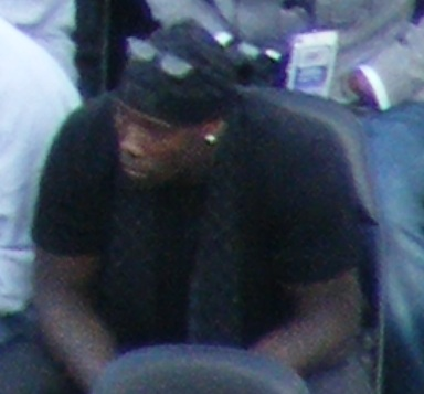 New York Giants players on stage in the post-Super Bowl XLVI celebration.